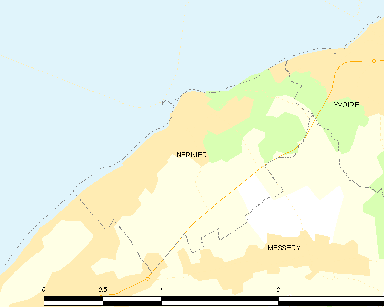 Map of French municipality Nernier